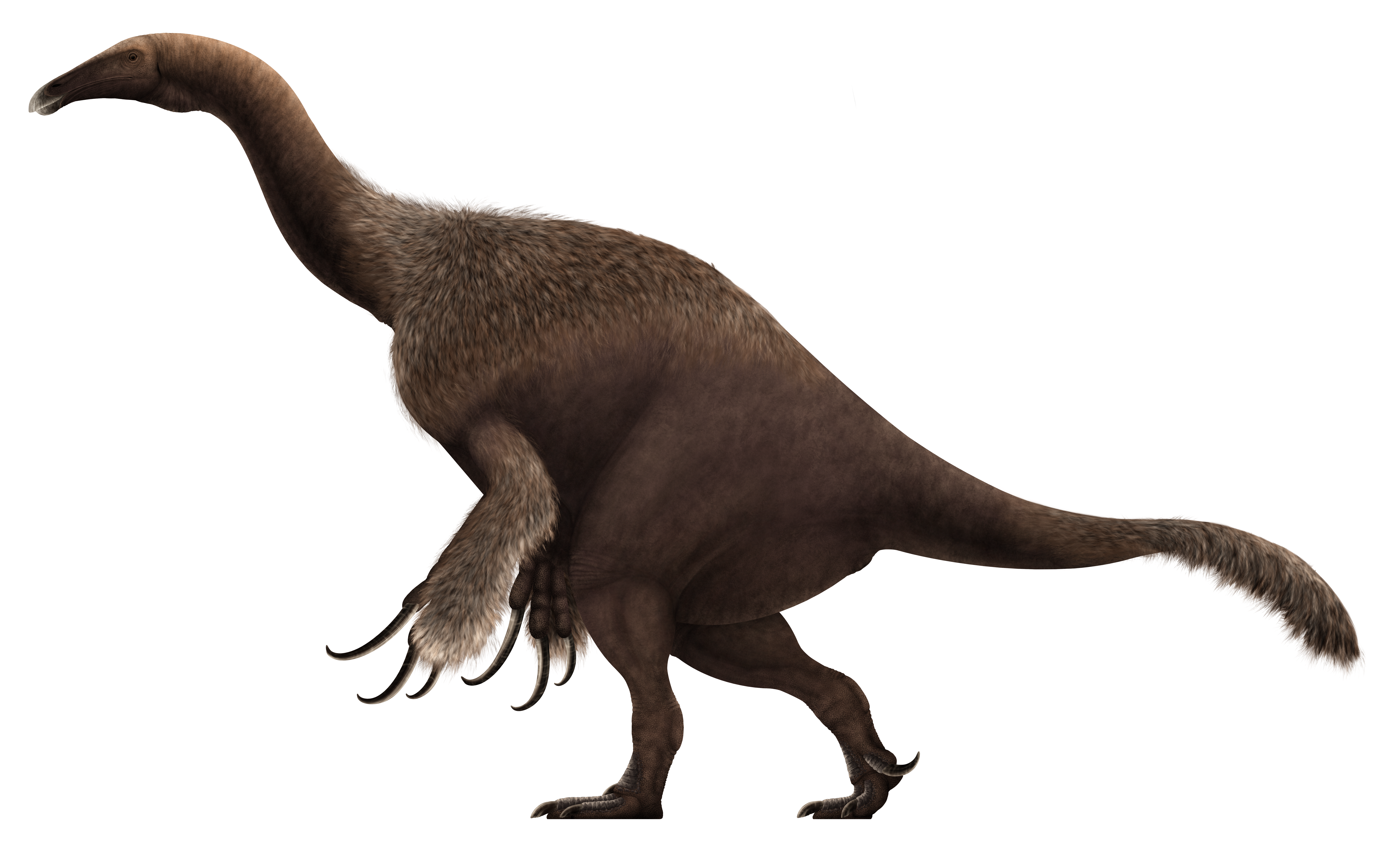 Life restoration of the gigantic, Late Cretaceous therizinosaurid Therizinosaurus cheloniformis. Claws and arms based on holotype PIN 551-483 and specimens IGM 100/15, 100/16 and 100/17.